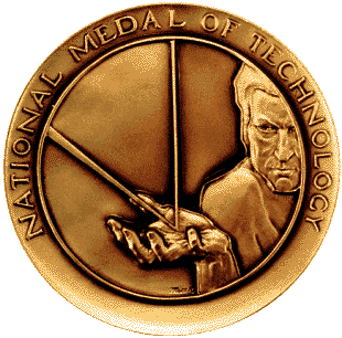 National Medal of Technology